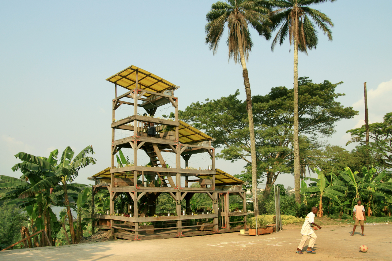 SUD Salon Urbain de Douala 2010. Triennial festival promoted by doual'art. Photo by Sandrine Dole. A four floors structure irrigated by a system which collects water from the rain and it distributes it drop by drop to irrigate a botanical garden. The drops fall into small metallic cans and they produce an harmonic sound.